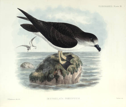 Plate 56 from Godman's 'Monograph of the Petrels.'